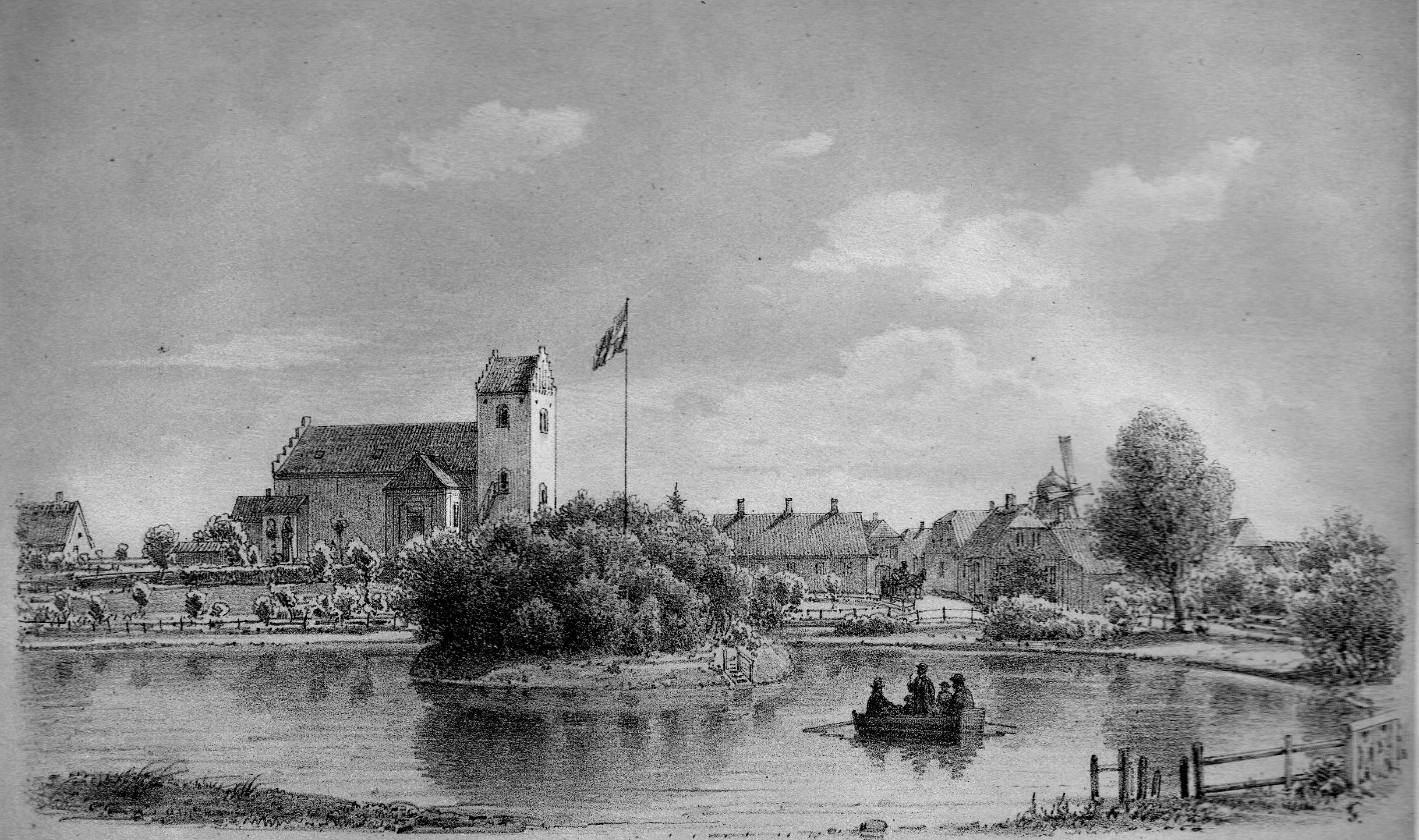 Ruds Vedby Kirke, Scanned by myself from a copy of the old book in 2007. The book was graciously lent to me by Det Kongelige Garnisonsbibliotek.